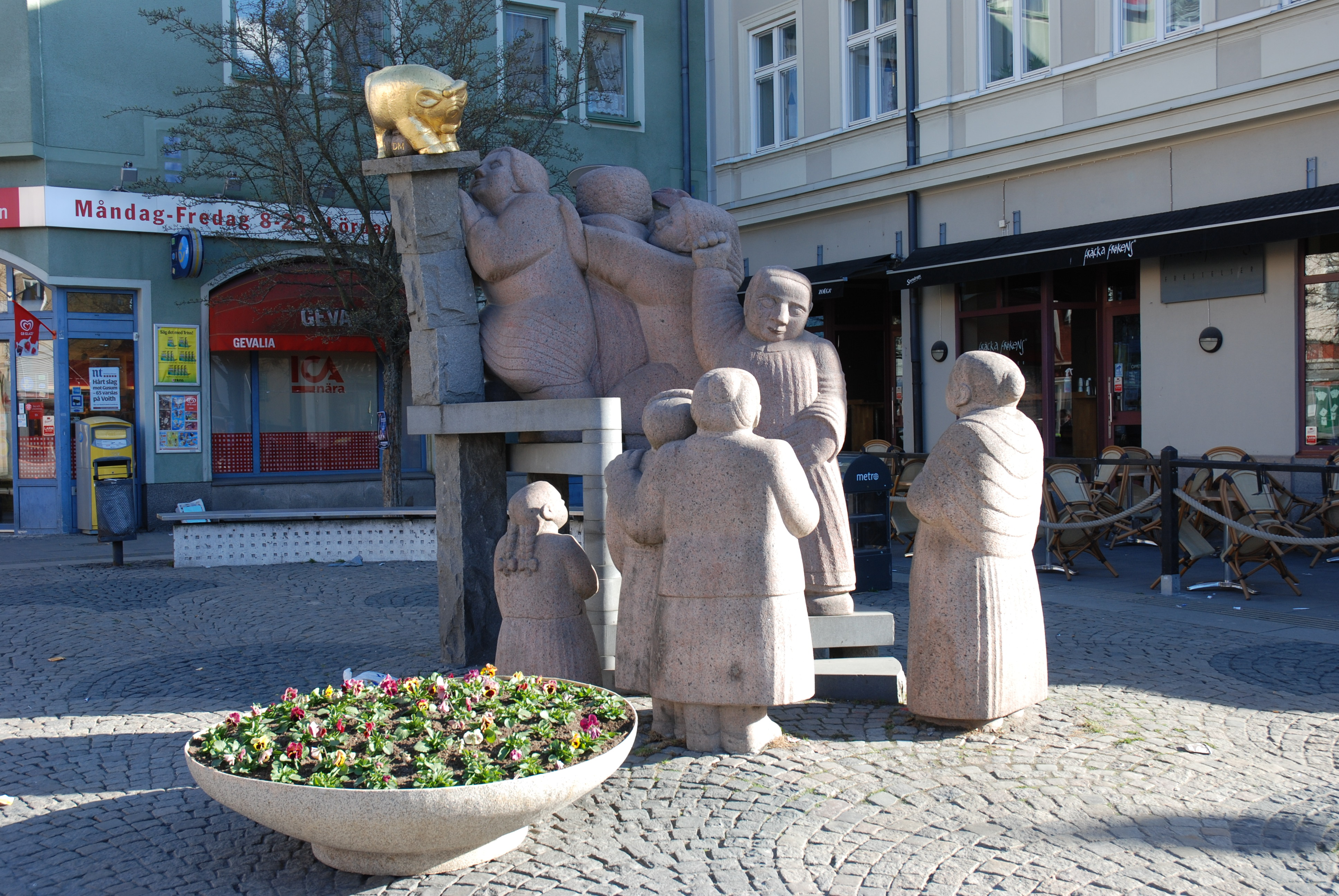 Pye Engstrom´s Dansen kring guldkalven (The dance around the golden calf), Norrköping, Sweden